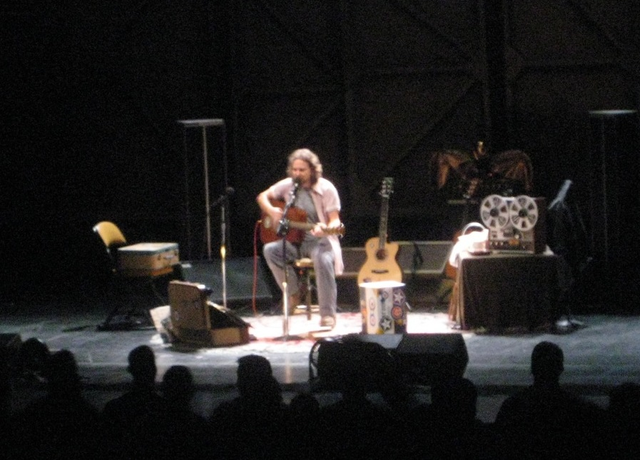 Eddie Vedder at Auditorium Theater